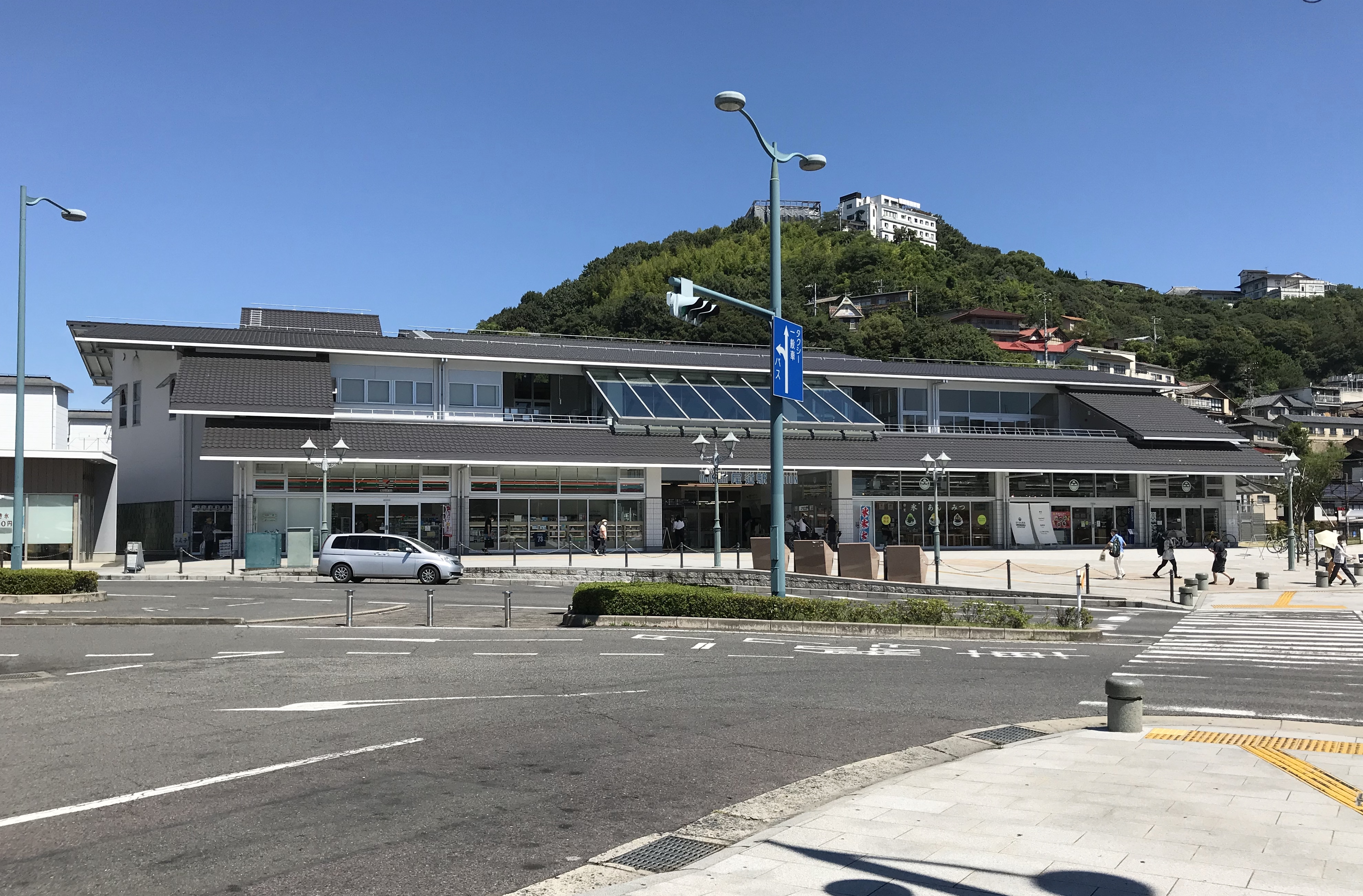 Onomichi station south entrance building built in 2019